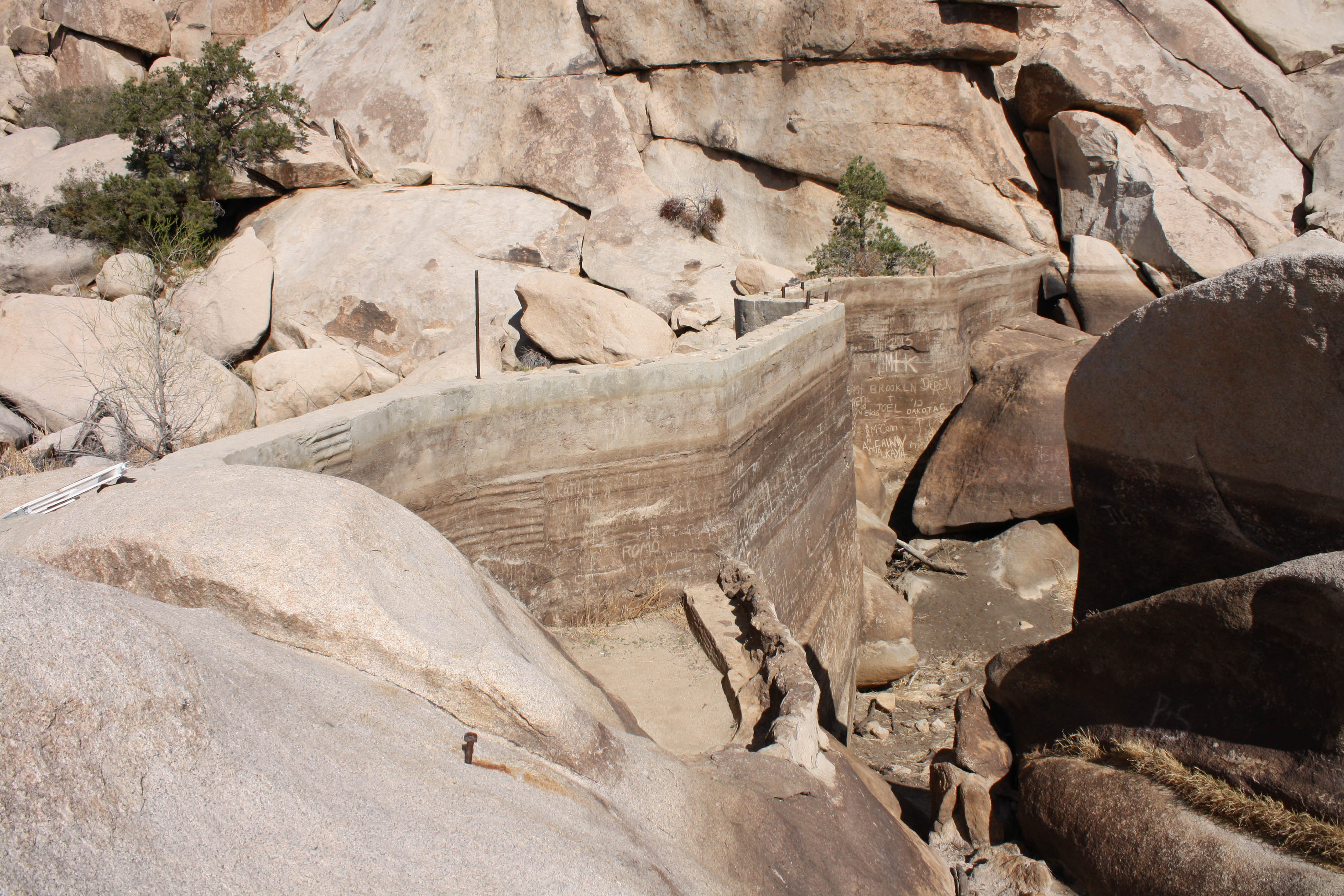 The Barker Dam in Joshua Tree National Park, California